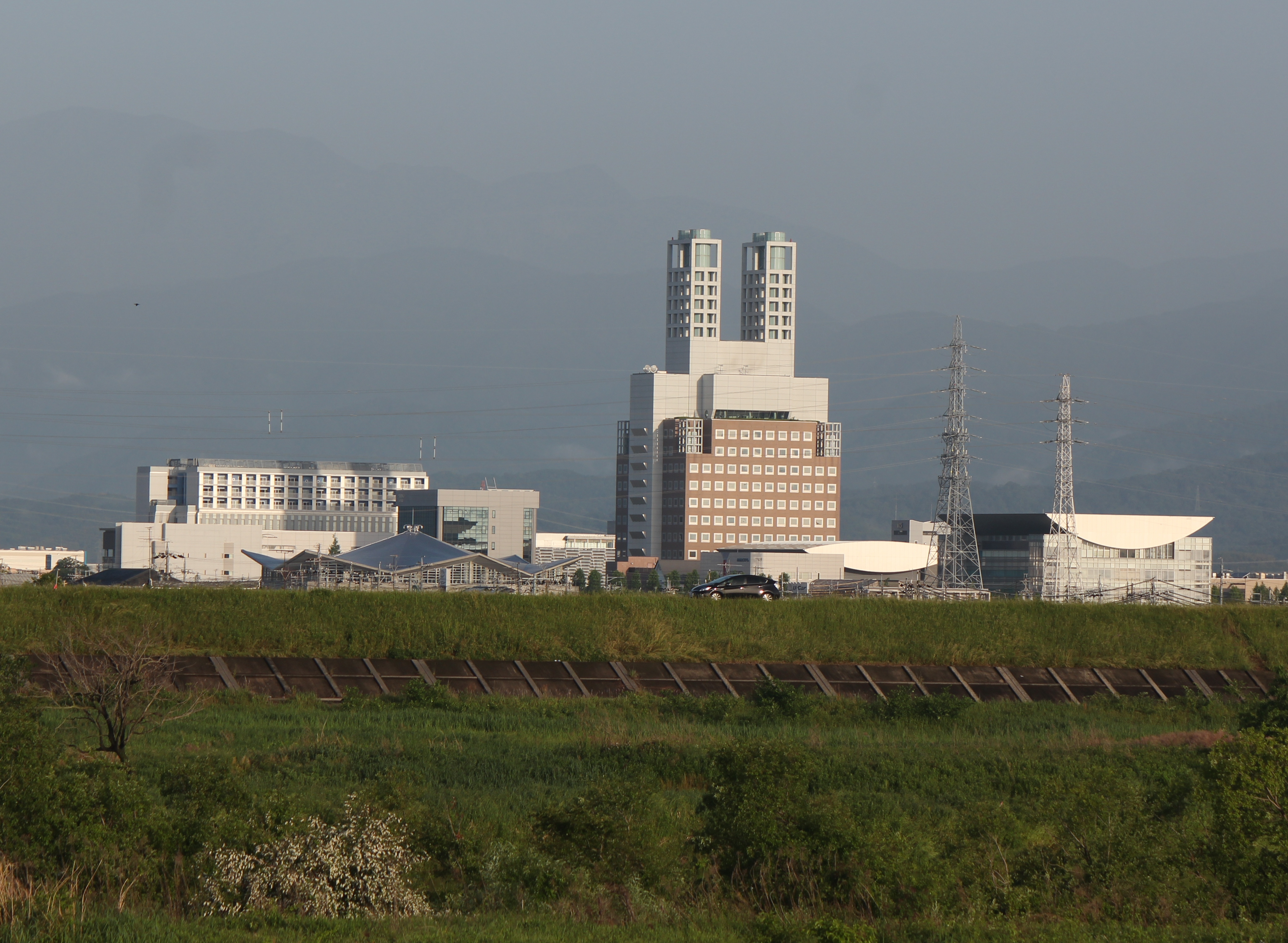 Softopia Japan seen from east, in Ōgaki, Gifu prefecture, Japan.